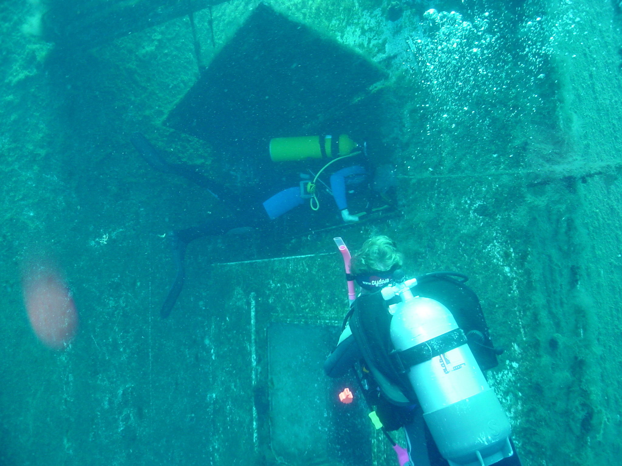 Wreck of the Zenobia in Larnaca Cyprus